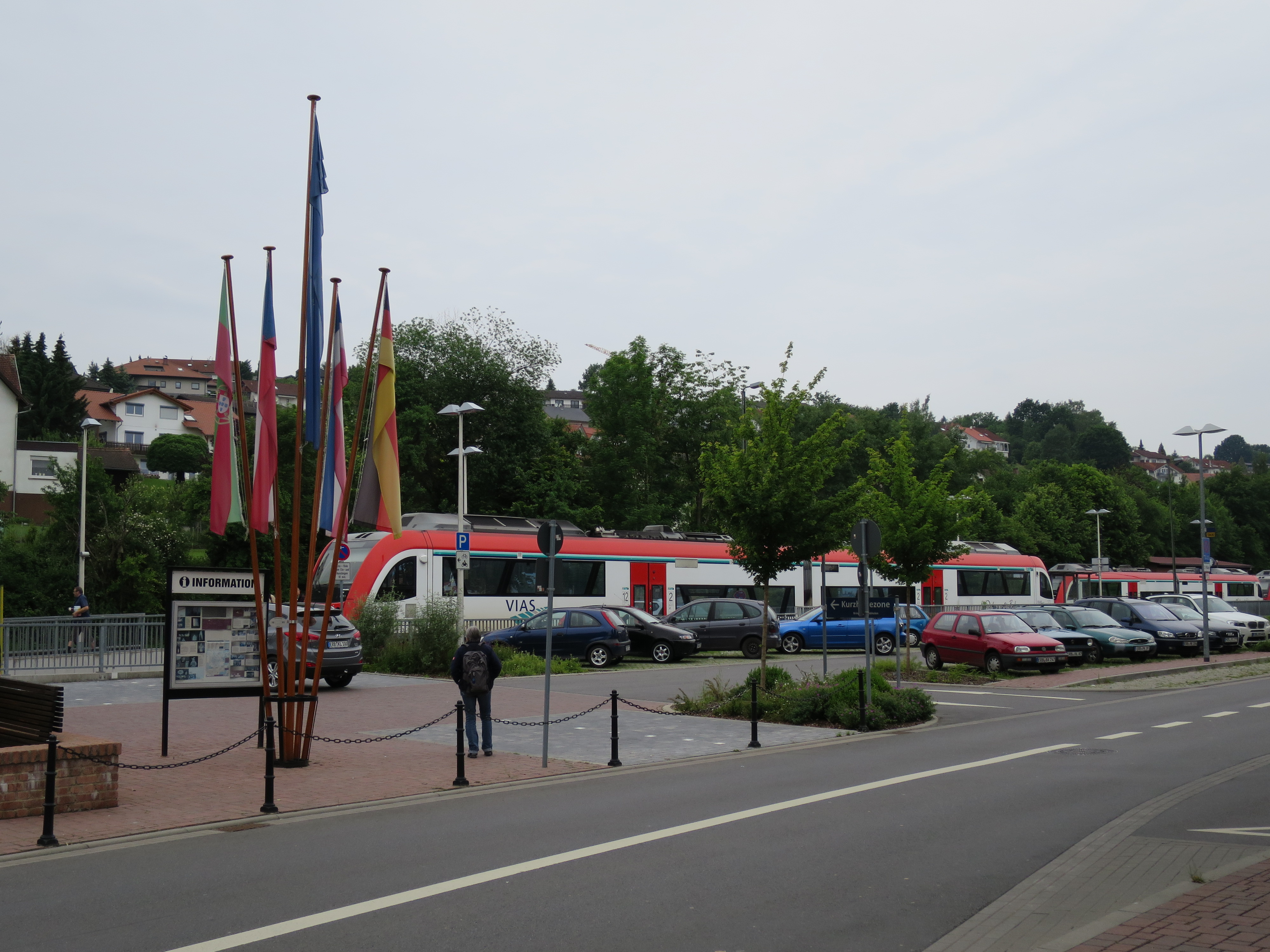 Rly Stn Erbach (Odenw)